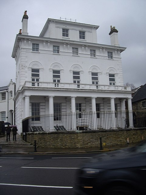 Council Registry With steps to Cuckoo Lane on the left.